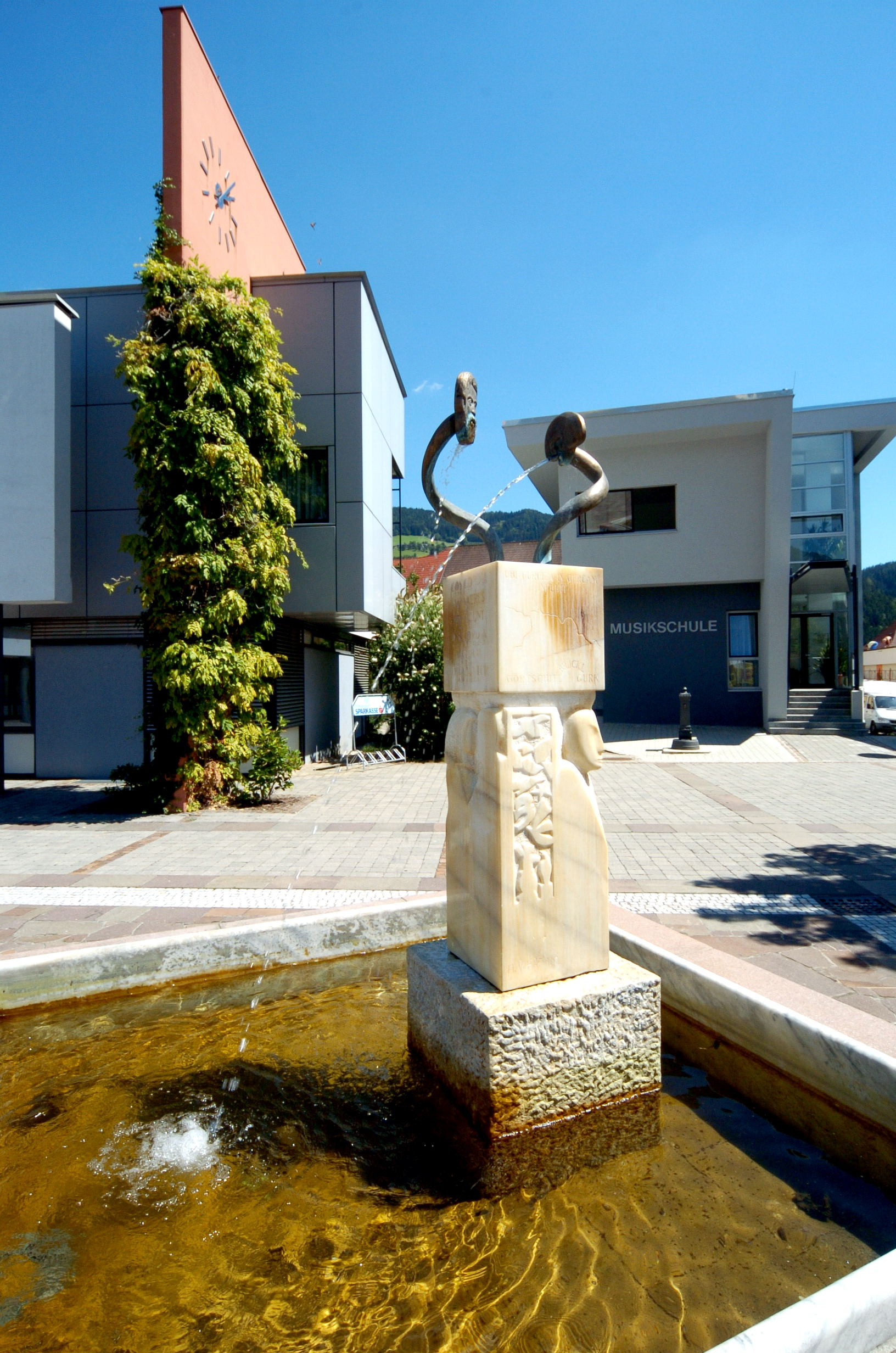 Fountain on the main square in Brueckl, district Saint Veit on the Glan, Carinthia, Austria